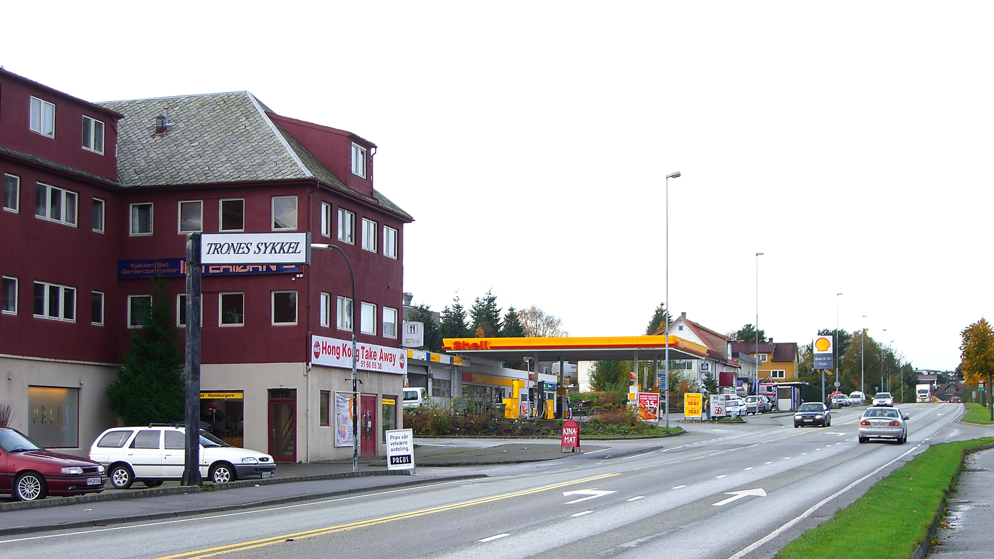 Stavangerveien in southern Lura (Sandnes, Norway)